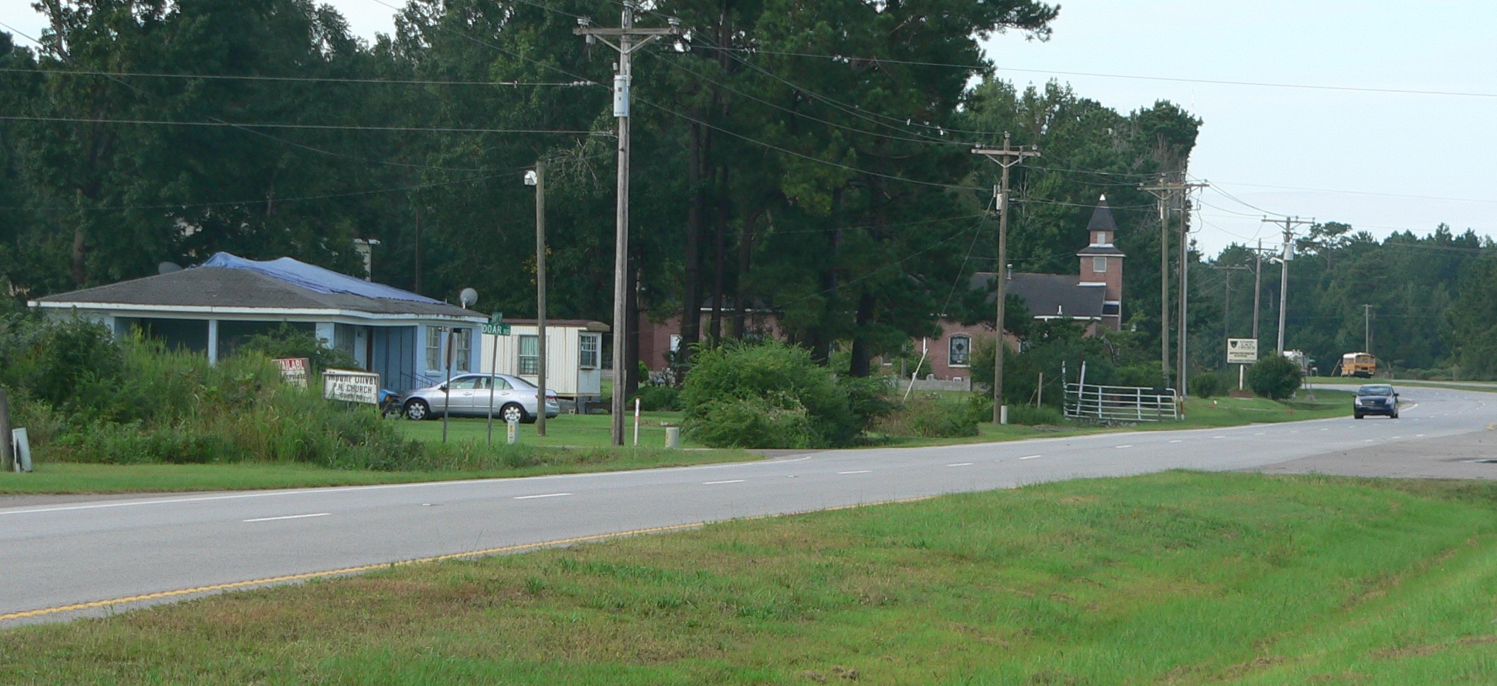 Awendaw, South Carolina: view looking generally south along U.S. Highway 17, from immediately south of Awendaw Creek crossing.